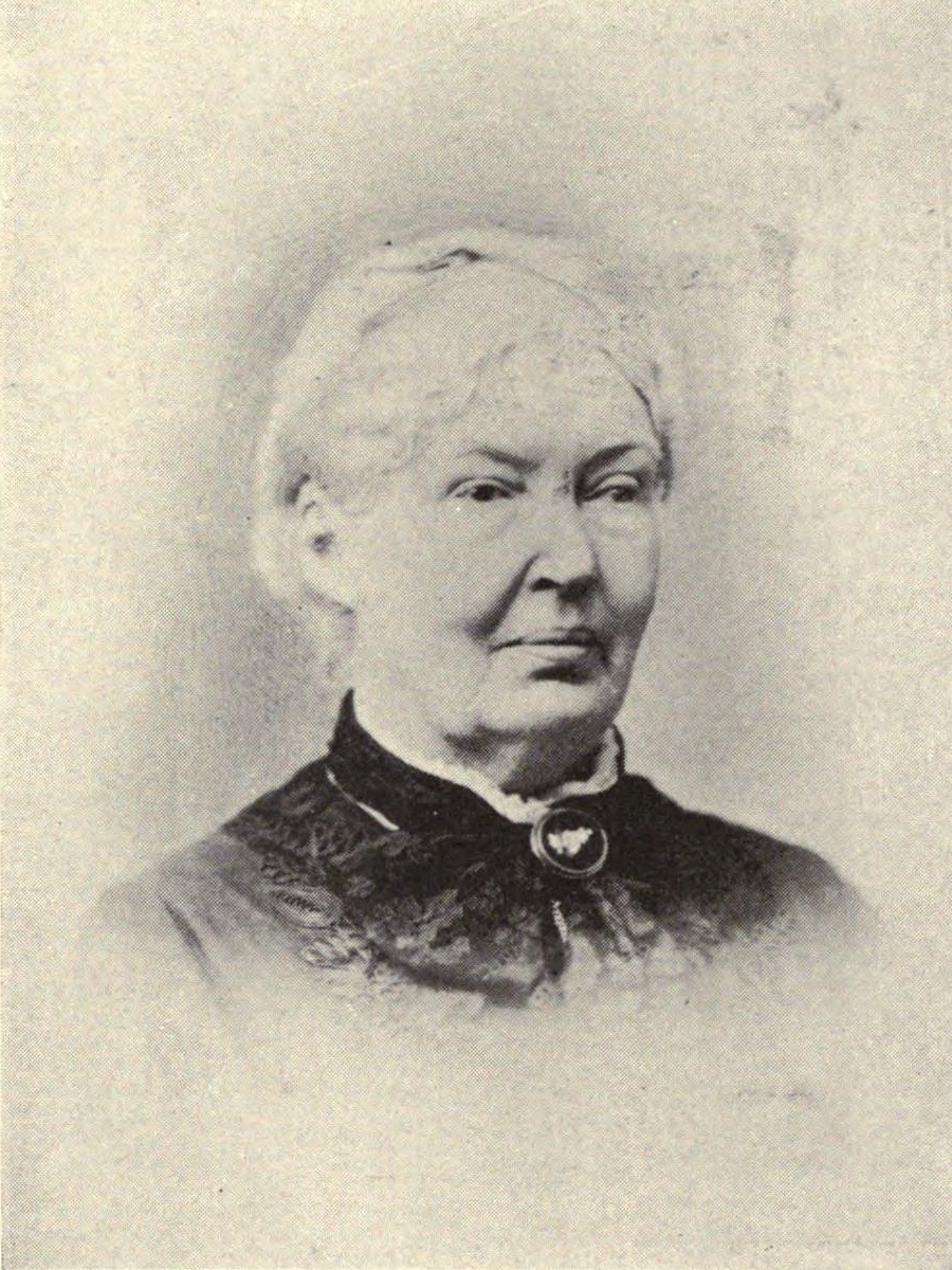 Juliette Montague Cooke (1812-1896) was a founder and teacher of the Royal School of Hawaii 1839-1849, also known as the Chiefs' Children's School. She married Amos Starr Cooke in 1836, who founded the firm of Castle and Cooke which became one of the "Big Five" corporations that dominated the early Hawaiian economy.